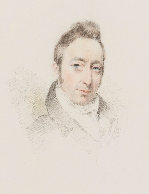 Pencil and wash portrait of White by Joseph Slater, created 1812.